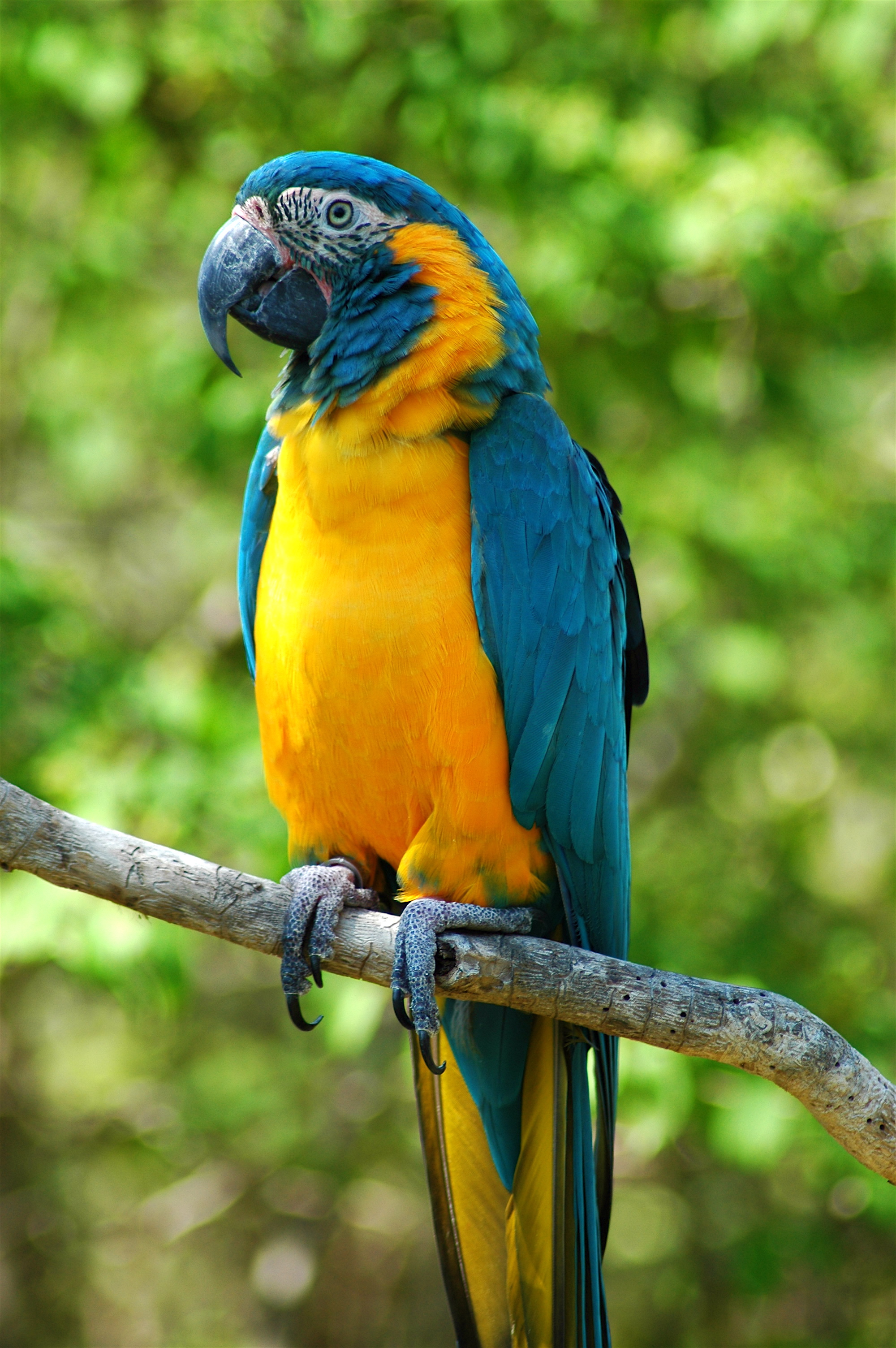 Blue-throated Macaw (Ara glaucogularis) at Cincinnati Zoo.